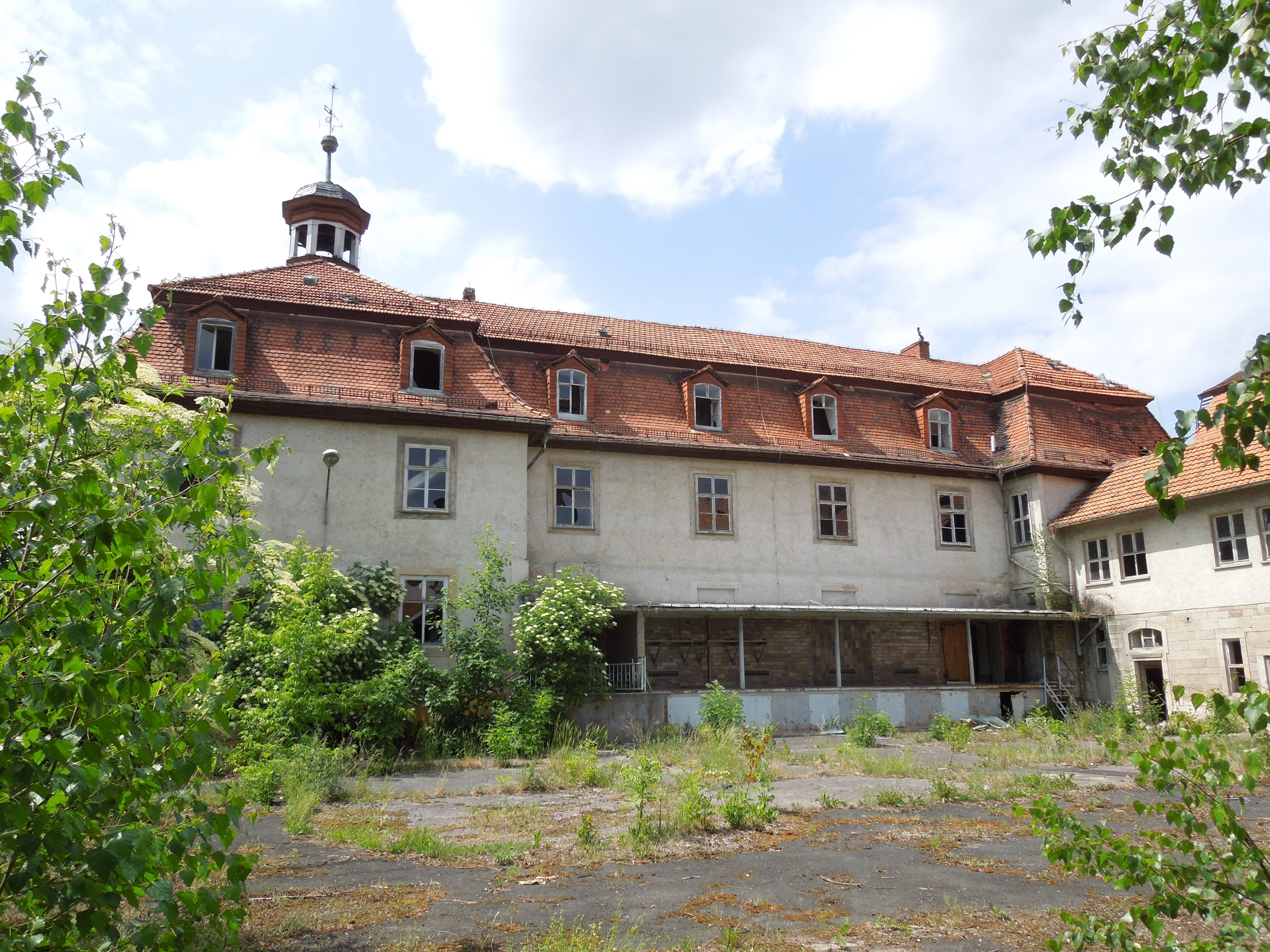 Wilhelmsburg castle in Barchfeld, east (rear) side, 30 May 2012